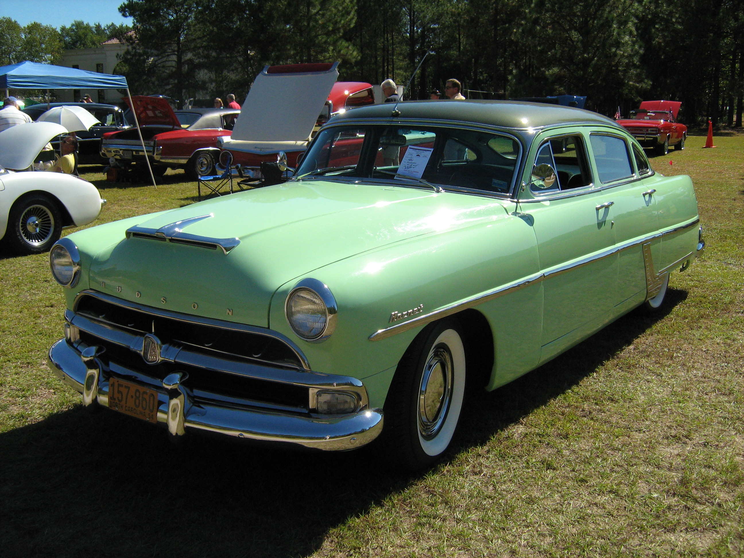 1954 Hudson Hornet Special. A four-door "Step-Down" sedan finished in two-tone paint: light green with darker green roof. This car has the "Twin-H-Power" 308 cu in (5.0 L) straight-six engine producing 170 hp (127 kW). Picture taken at a local car show in North Carolina.